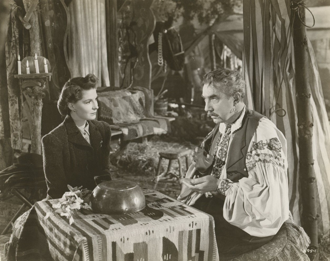 Fay Helm & Bela Lugosi in The Wolf Man - publicity still (cropped)